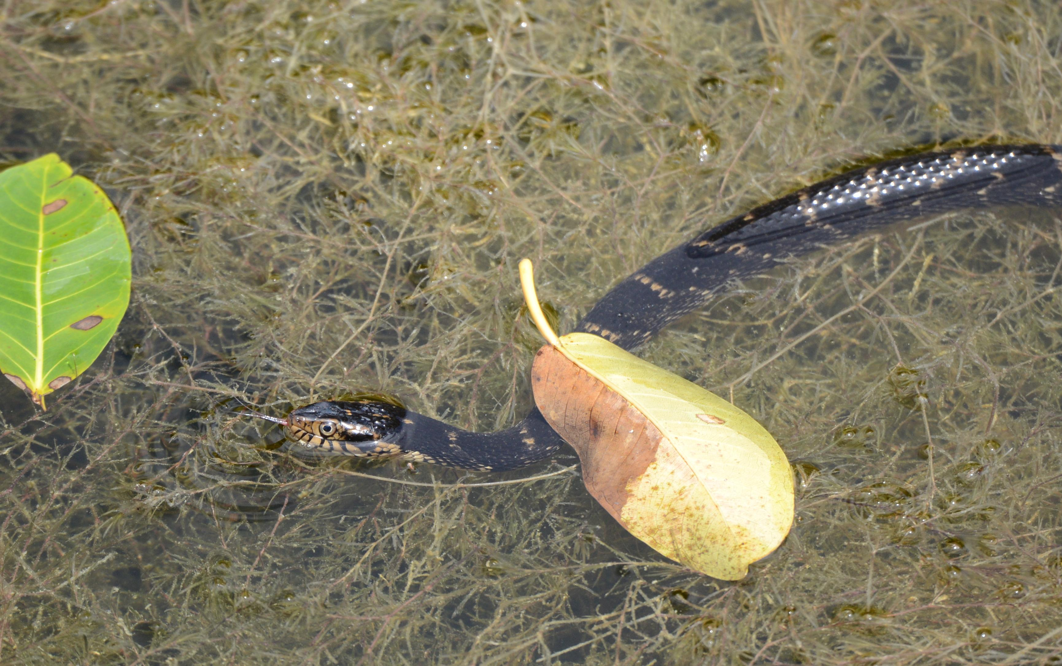 Florida Banded Water Snake partially submerged at Green Cay Wetlands, Florida